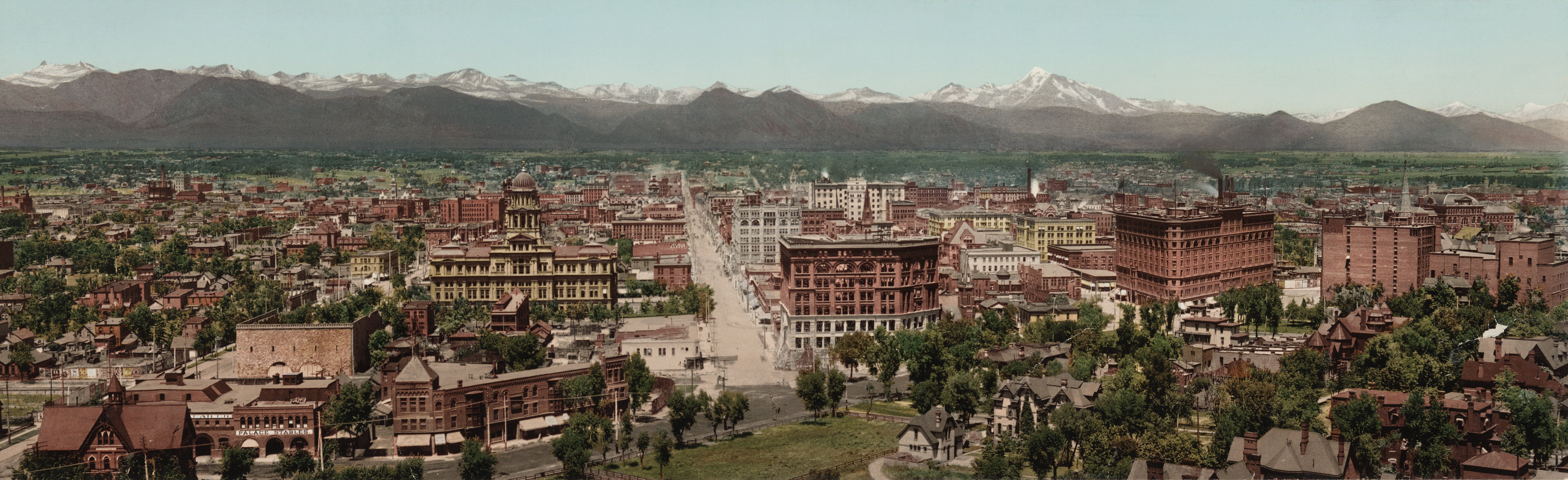 This photograph is taken from the top of the Colorado State Capitol, facing northwest looking down 16th St. The intersection of 16th and Broadway is in the foreground. The domed building on the left side is the Arapahoe County Courthouse, demolished in 1933. The Brown Palace Hotel is visible on the right side.